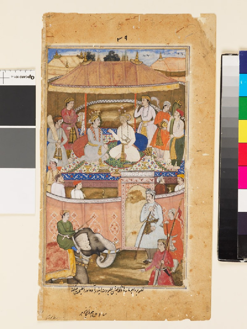 Credit line: Gift of Gerald Reitlinger, 1978.